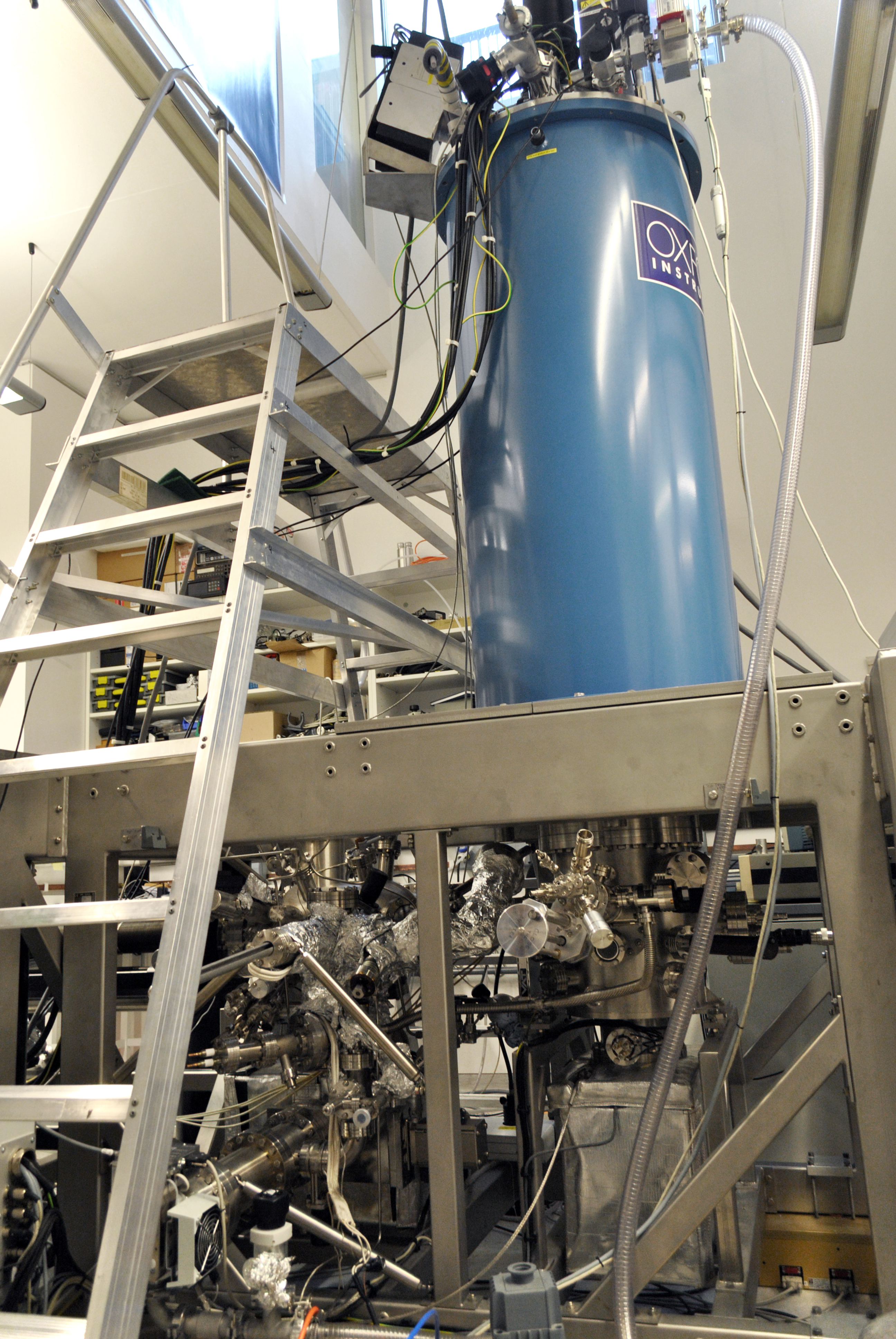 A large scanning tunneling microscope, in the labs of the London Centre for Nanotechnology